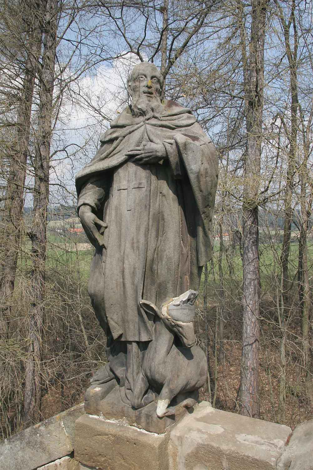 Statue of St Felix of Valois besides stairway to Homole pilgrimage site (church of Our Lady of Sorrows), Borovnice, Rychnov nad Kněžnou District, Czech Republic.